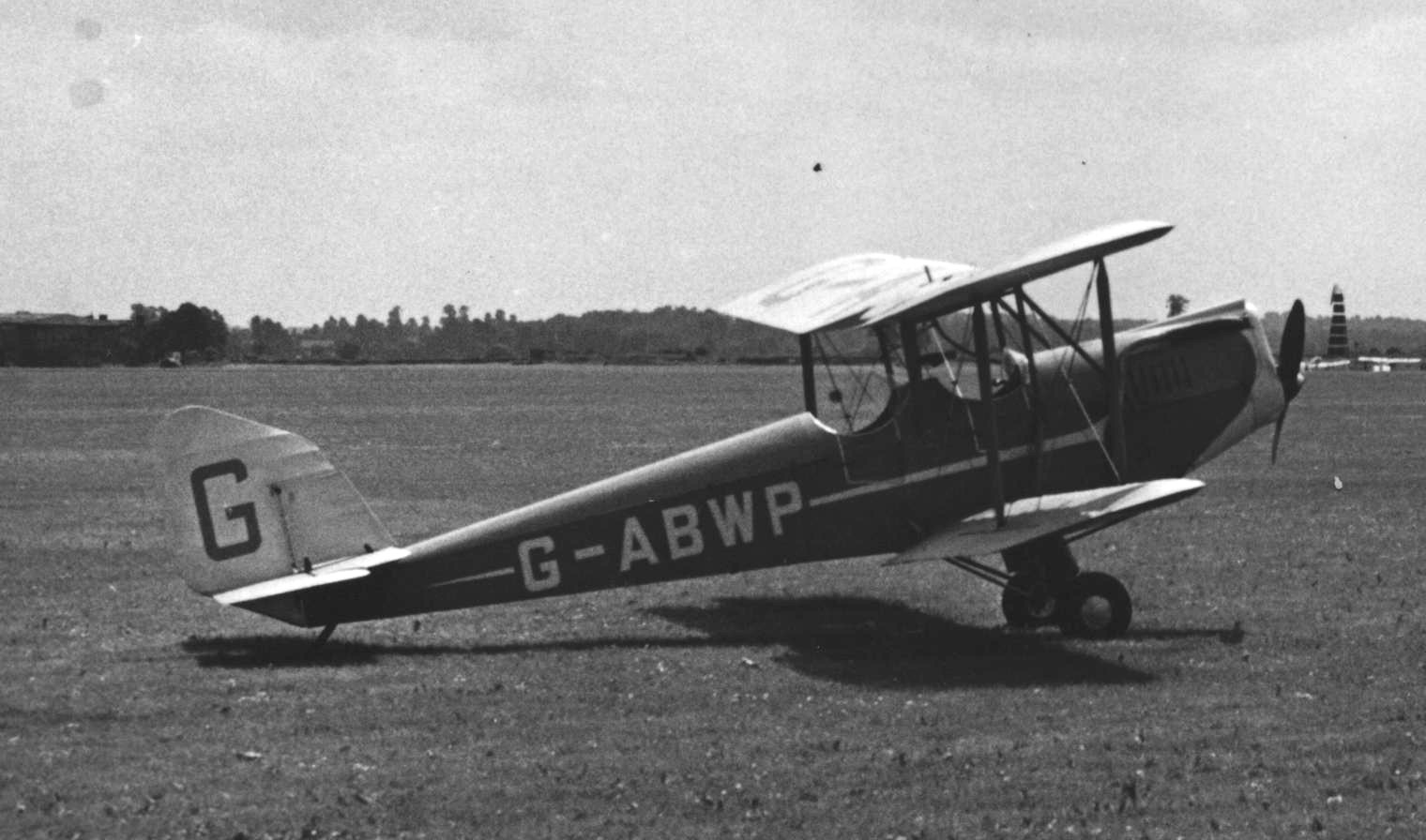 Spartan Arrow 1 biplane, built in the UK in 1932, at Coventry Airport